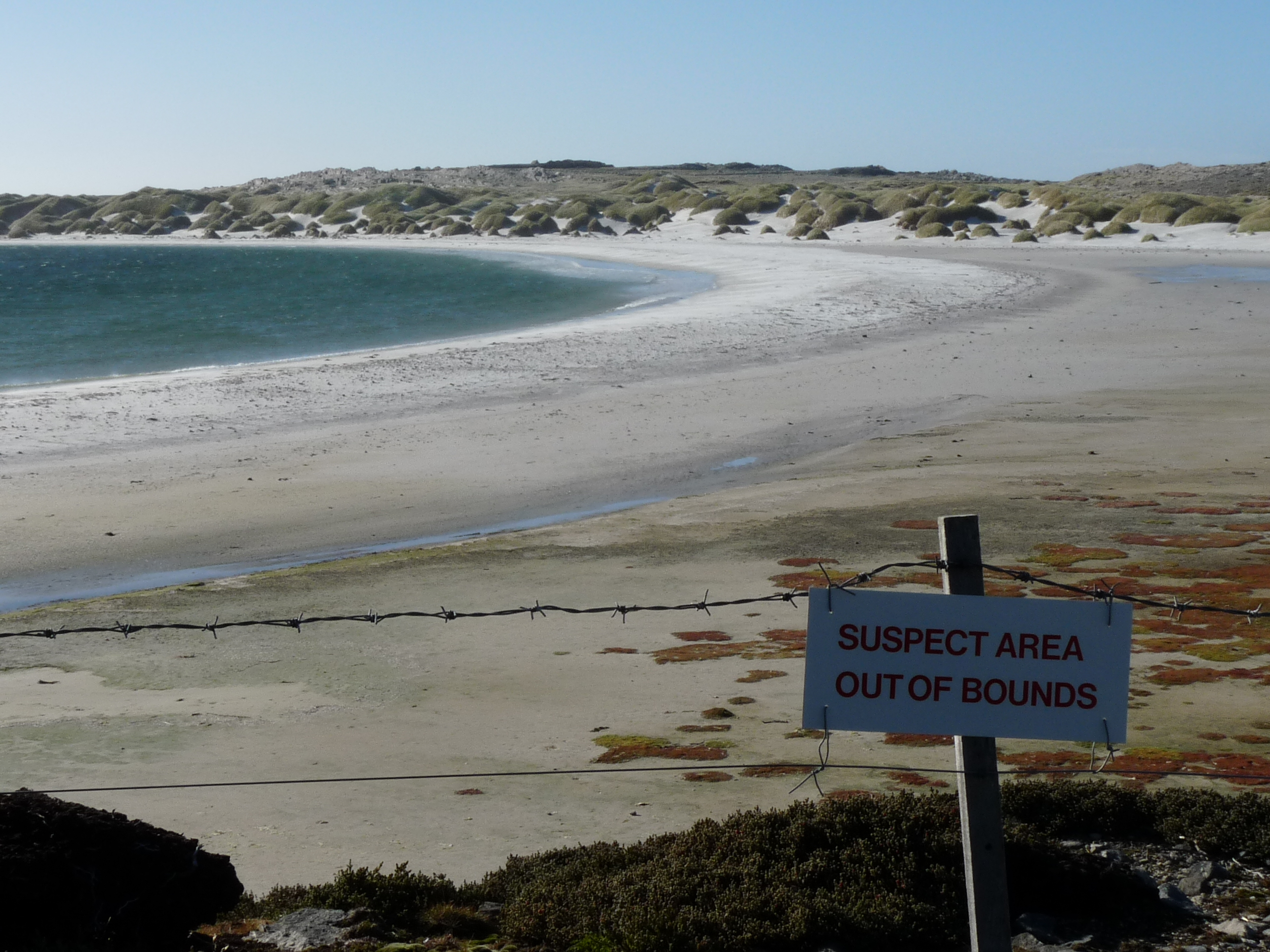 Yorke Bay 03